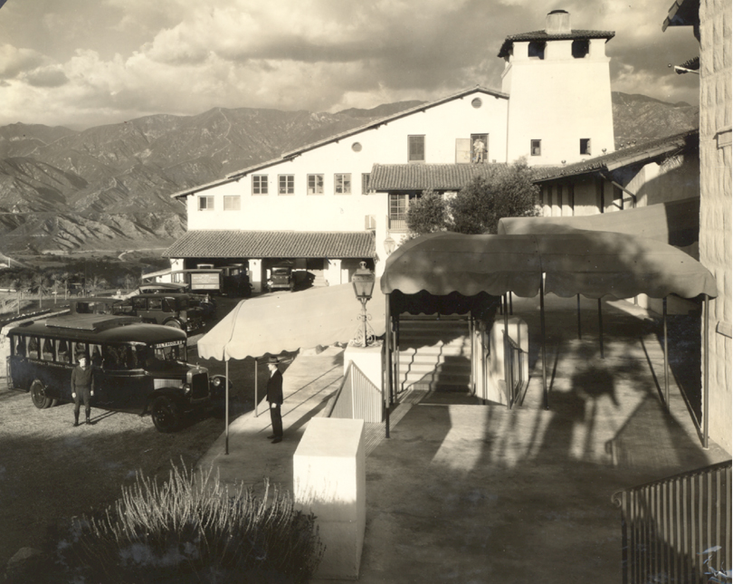 The main structure of the Flintridge Hotel, later the Flintridge Biltmore (1928-1931), shortly after its opening in 1927, with the San Gabriel Mountains in backround. Designed by Myron Hunt in the Spanish Colonial Revival style, and located atop the San Rafael Hills in La Cañada Flintridge, California. This building now serves as the main Administration Building at Flintridge Sacred Heart Academy and houses the Dominican Sisters and boarding students.